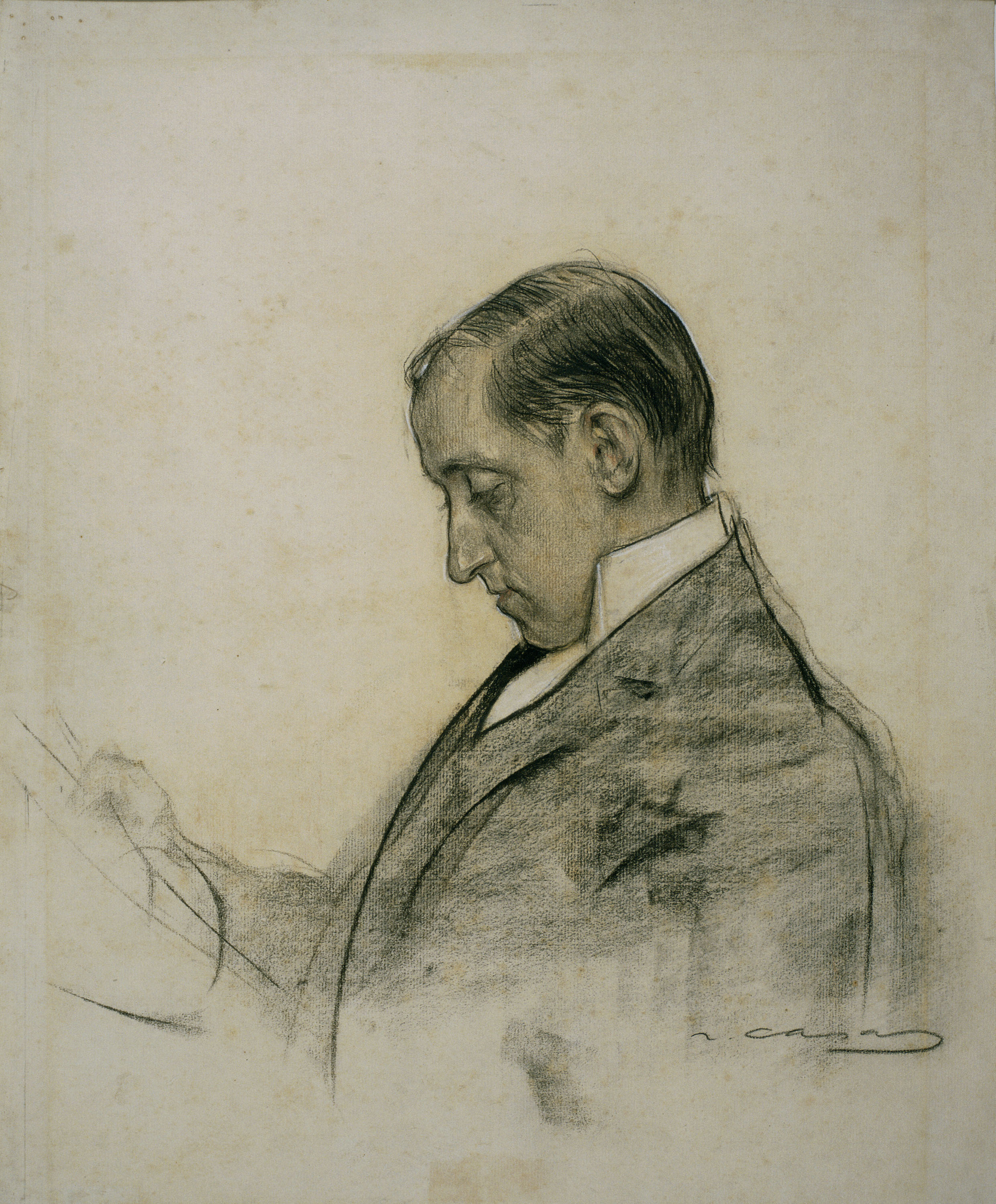 Portrait by Ramon Casas conserved at MNAC in Barcelona.